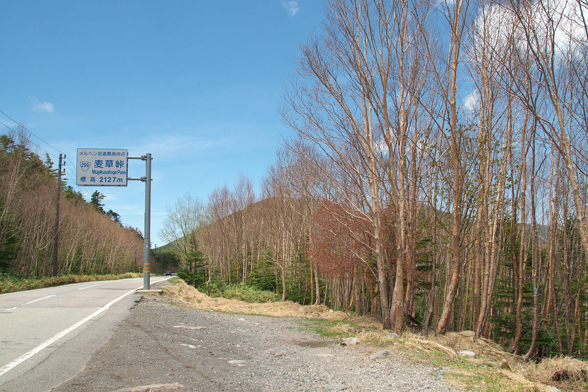 Mugikusa Pass, the highest point of Japanese National Route 299